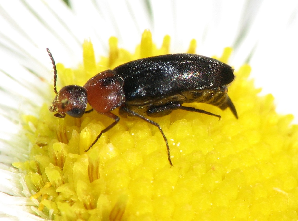 Tumbling flower beetle, Mordellistena cervicalis. Horsham Trail, Montgomery County, Pennsylvania, USA.